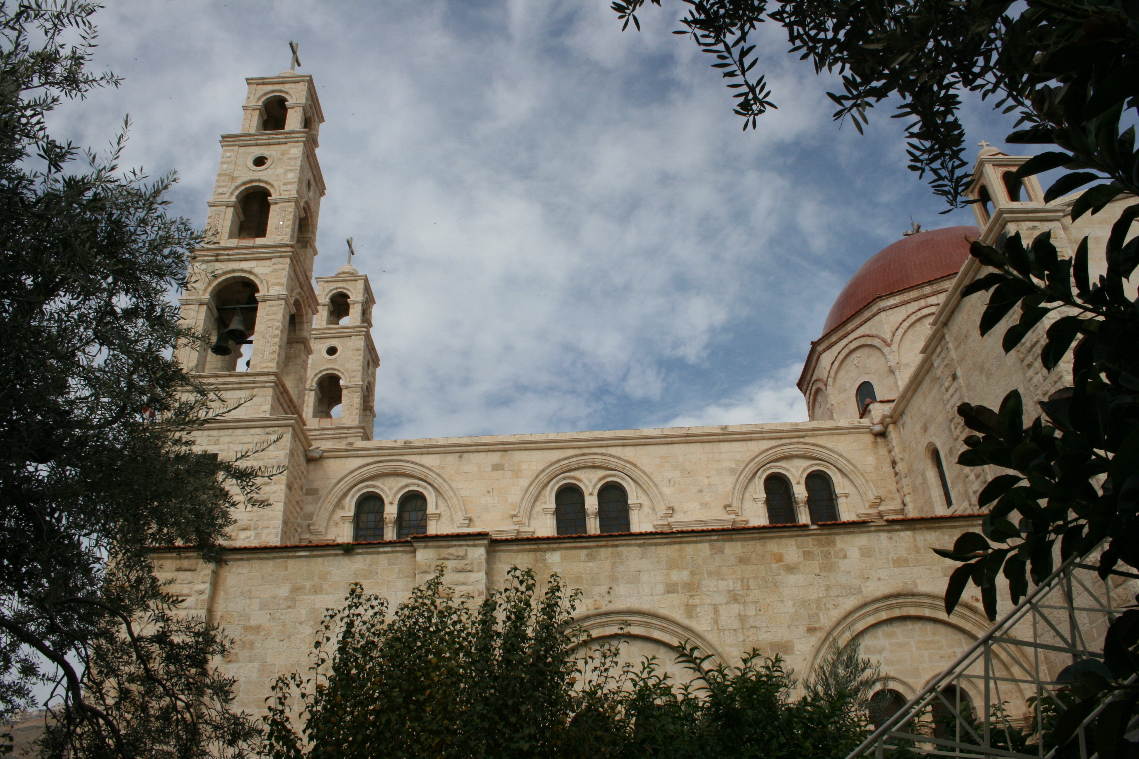 This is the church of Bir Ya'qub, photographed from within the monastery complex of the same name in Nablus.